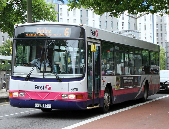 First Somerset and Avon bus 66110 (reg. R910 BOU), a 1998 Volvo B10BLE single-decker with Wrightbus Renown bodywork, pictured on the Haymarket in Bristol city centre.